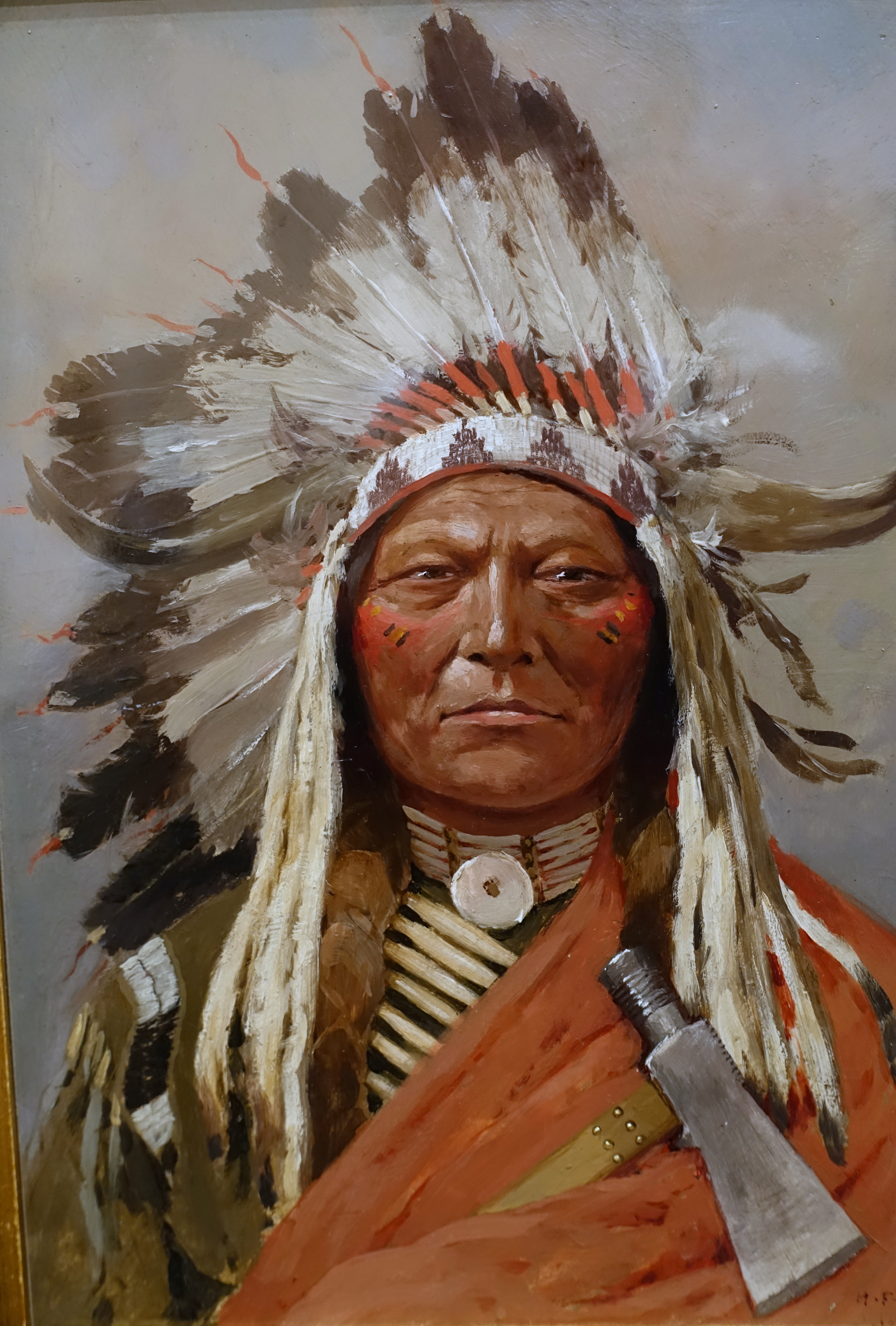 Exhibit in the Blanton Museum of Art - Austin, Texas, USA. This work is old enough so that it is in the public domain.